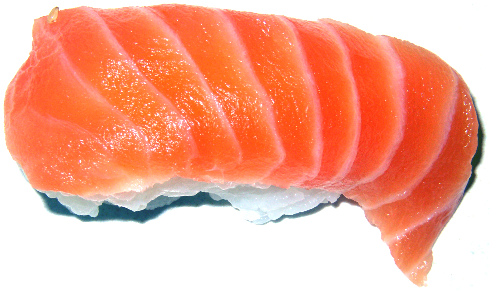 Originally uploaded by me (Switchercat) to sxc.hu; I am also uploading it here, and I release it under the public domain.